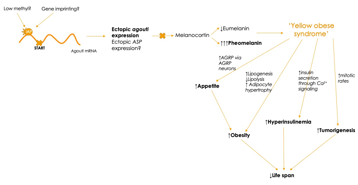 This relationship is characterized in mice, however, proposed to be comparable in humans through similarity in genomic sequence and analagous actions of ASP on melanocortin receptors, leading to the development of characteristics associated with ‘yellow obese mouse syndrome’ in humans. Viable yellow mutation represented as agouti mRNA. IAP = Intracisternal A particle, ASP = agouti signaling protein (human agouti homologue), AGRP = agouti related protein, ? = not currently known.